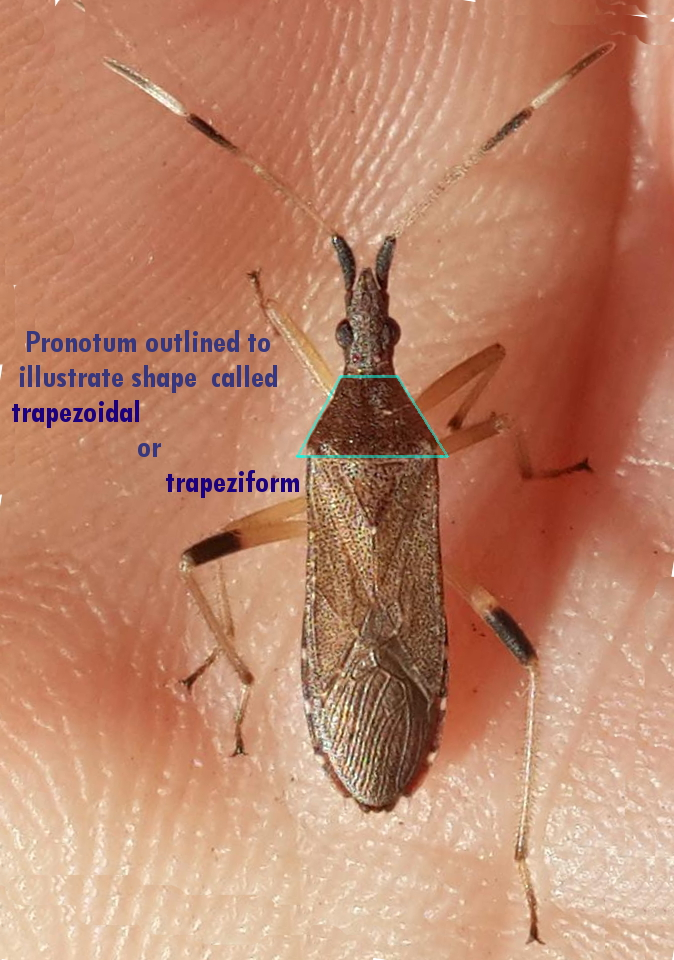 The outline overlaying the pronotum of this spurge bug, family Stenocephalidae, illustrates the usage of the term trapezoidal or trapeziform in descriptive entomology. This instance of the trapezium is roughly isosceles